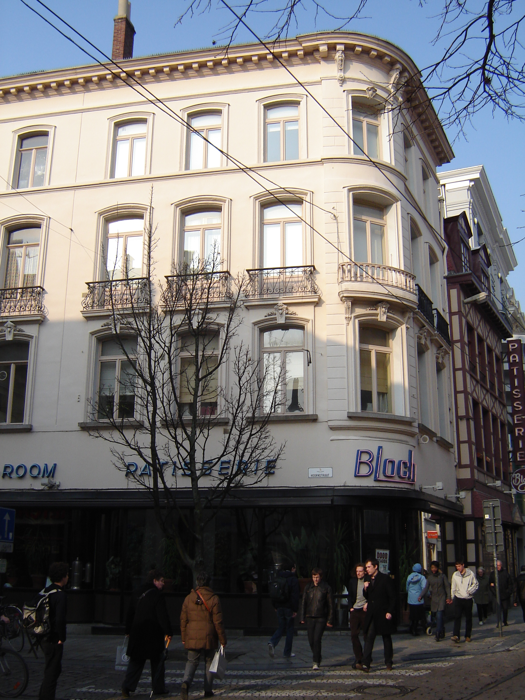 Patisserie Bloch (pastry shop). Gent, East Flanders, Belgium